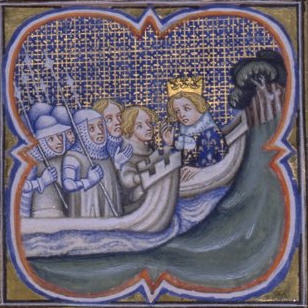 Louis IX.